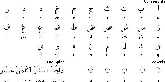 Aljamiado letters